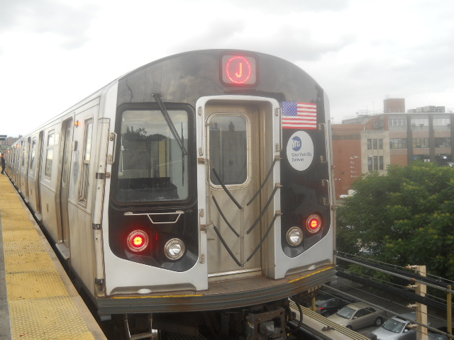 R160 J Train at Alabama Avenue (BMT Jamaica Line)